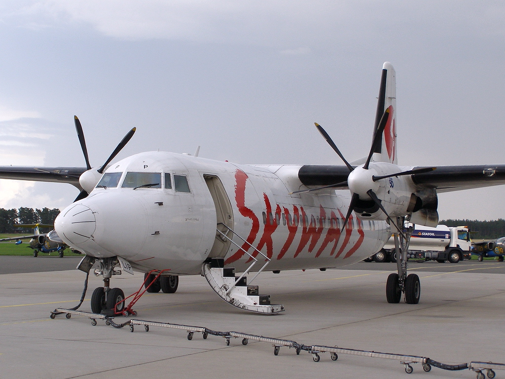 A Fokker 50 belonging to the swedish airline Skyways parked at Kristianstad Airport.